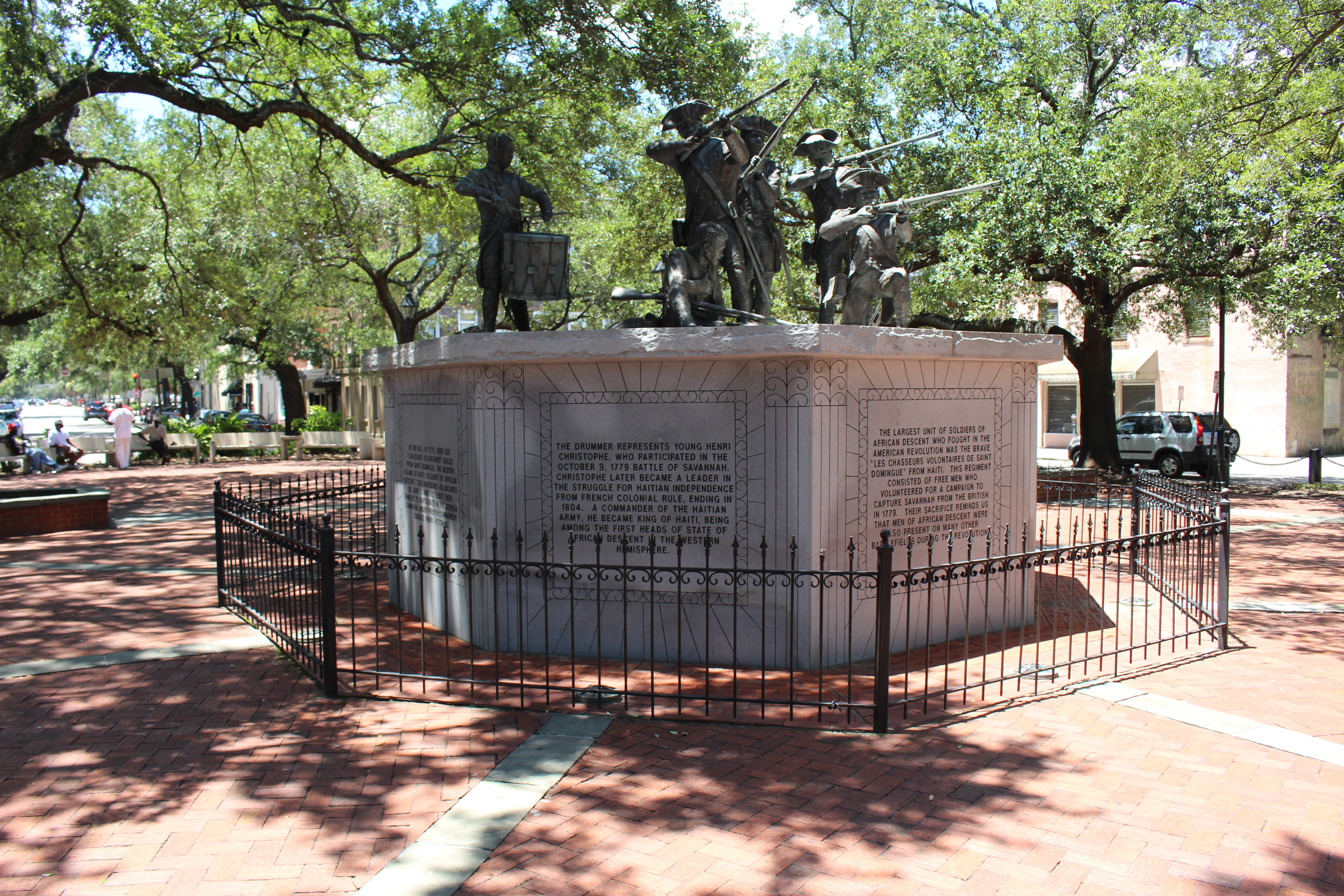 Statues, Franklin Square, Savannah, Chatham County, Georgia